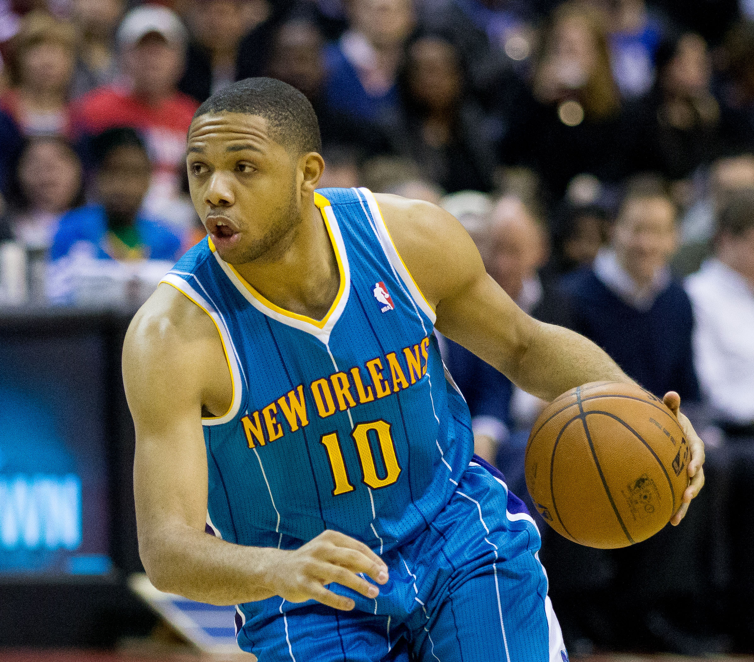 New Orleans Hornets at Washington Wizards March 15, 2013